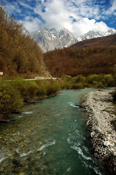 Sutjeska river